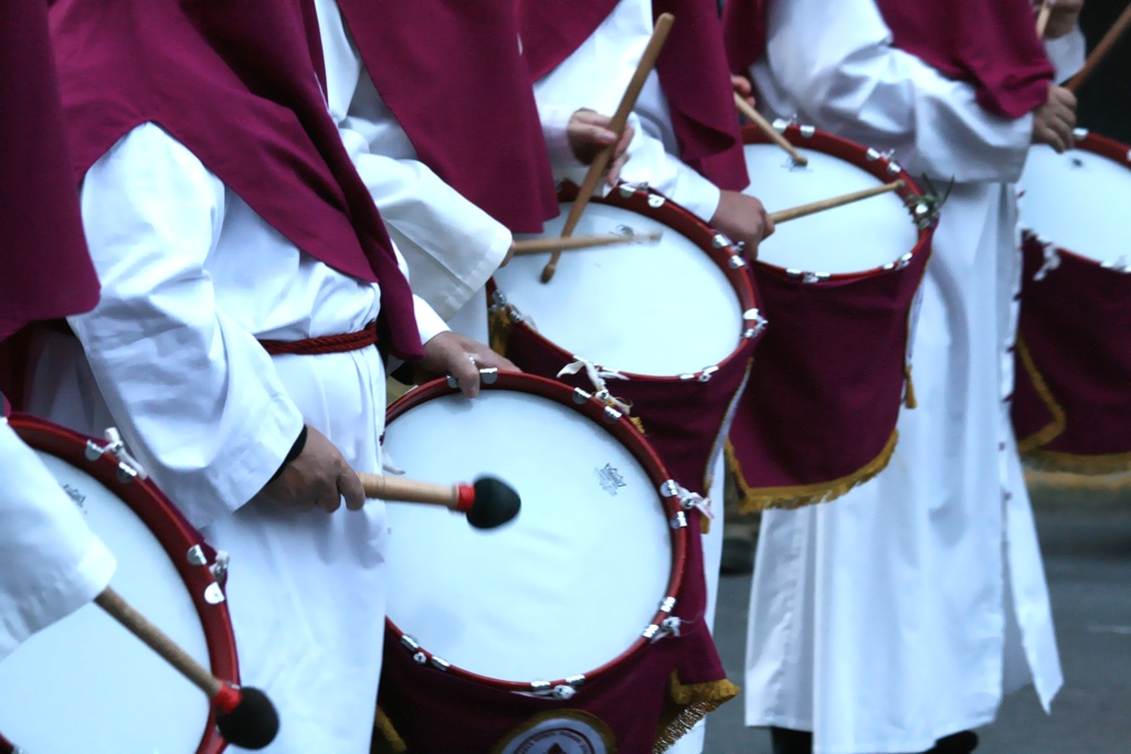 Un grupo de tamborileros de la Cofradía de Nuestro Padre Jesús del Silencio, en la procesión de la Virgen de la Soledad, en el viernes de Semana Santa. Vigo (Galicia, España). Nazarenes. A group of drummers of the Confraternity of Our Father Jesus of the Silence, in the procession of the Virgin of the Loneliness, in Friday of Holy Week. Vigo (Galicia, Spain).